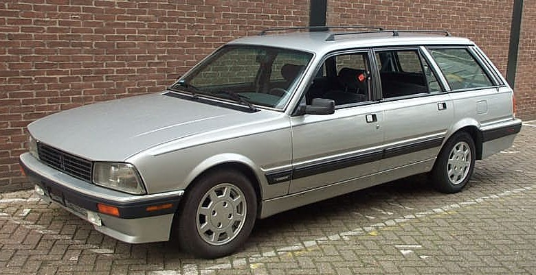 Peugeot 505 Turbo Station Wagon 8 seats 1991 (USA)